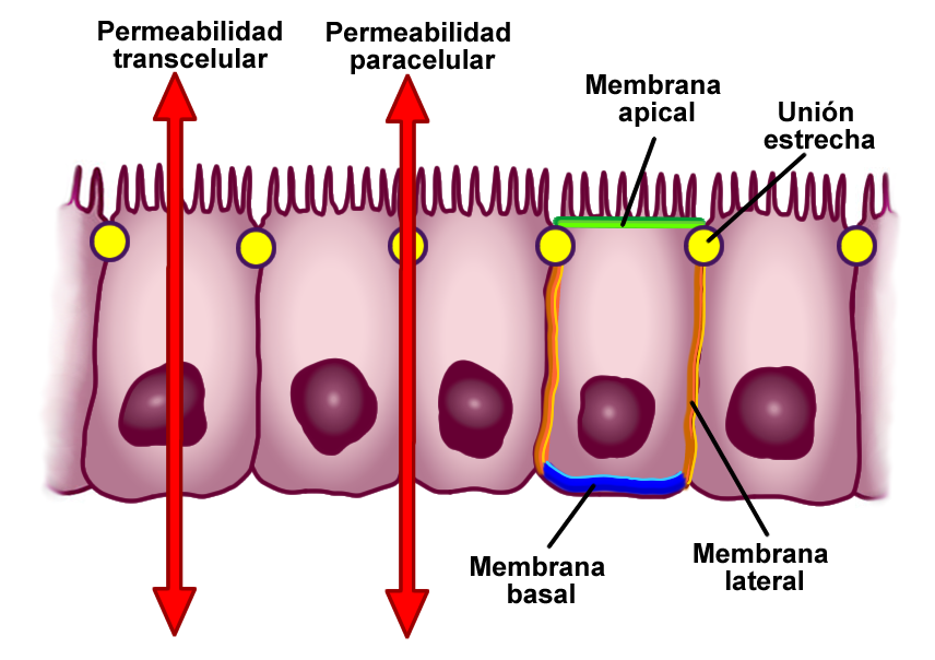 The intestinal epithelium and routes of selective permeability.